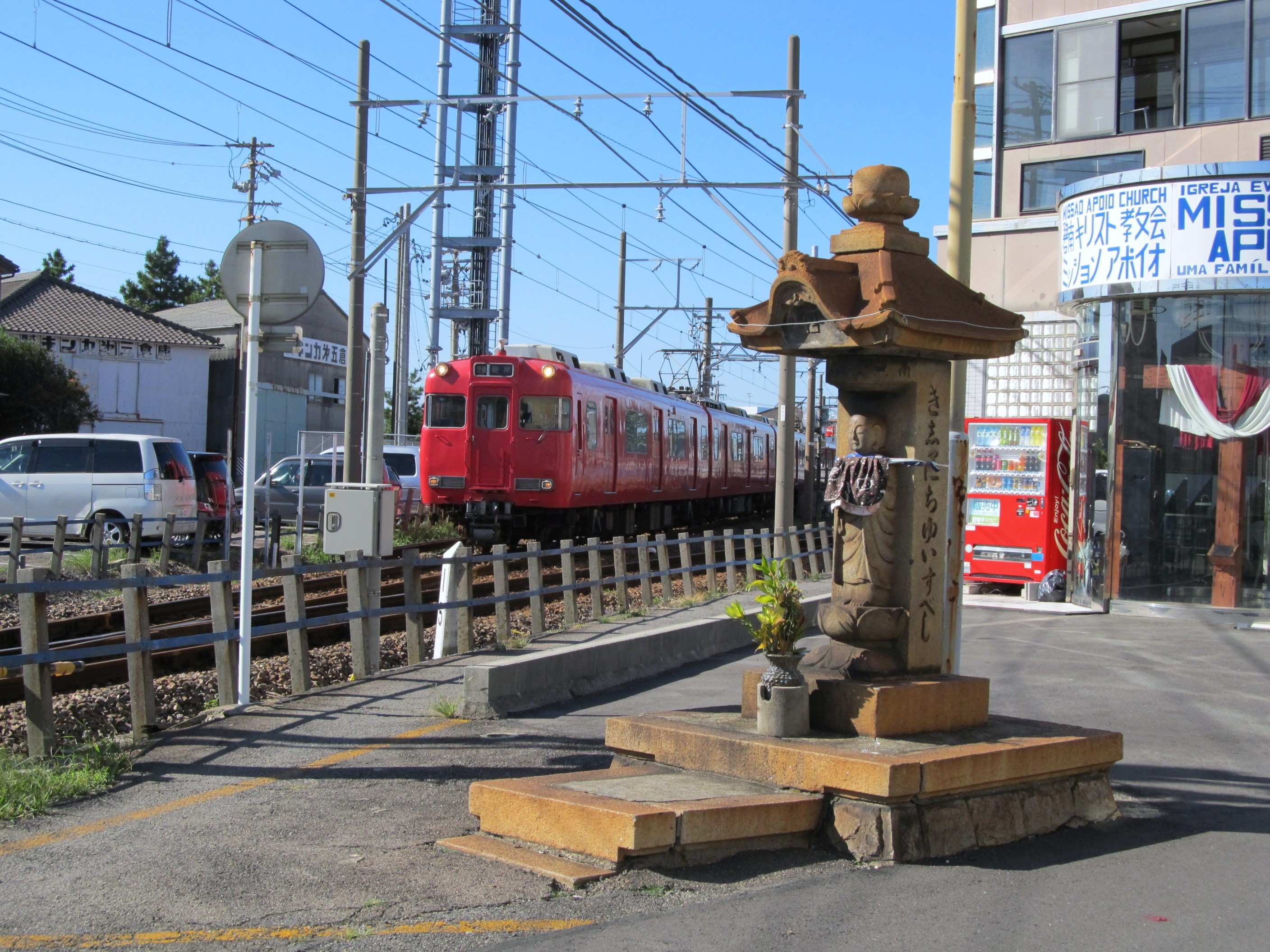 Anzen Jizō of Shinkawamachi No.7 Railroad crossing